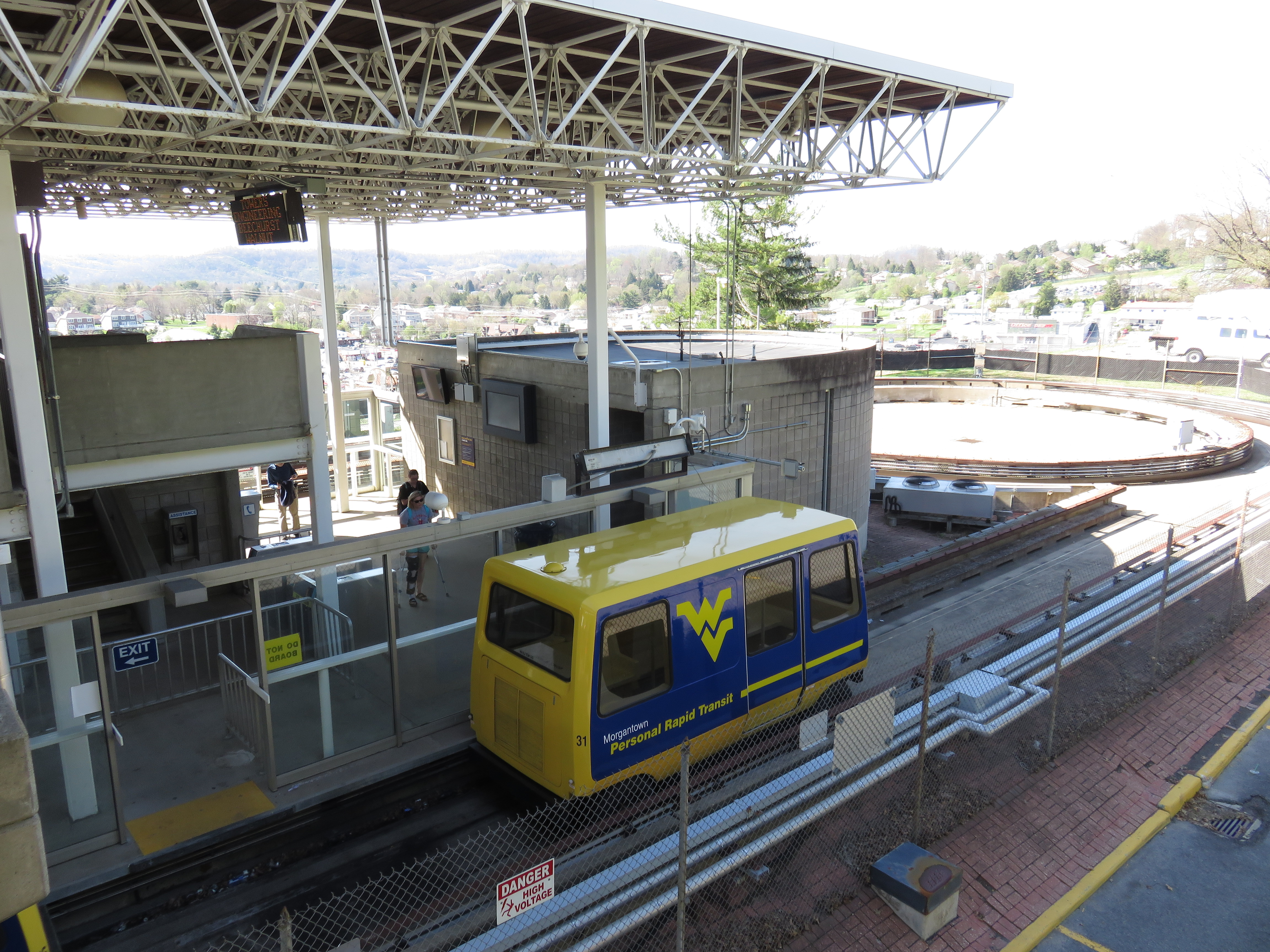 Morgantown Personal Rapid Transit Medical station in Morgantown, West Virginia in 2017